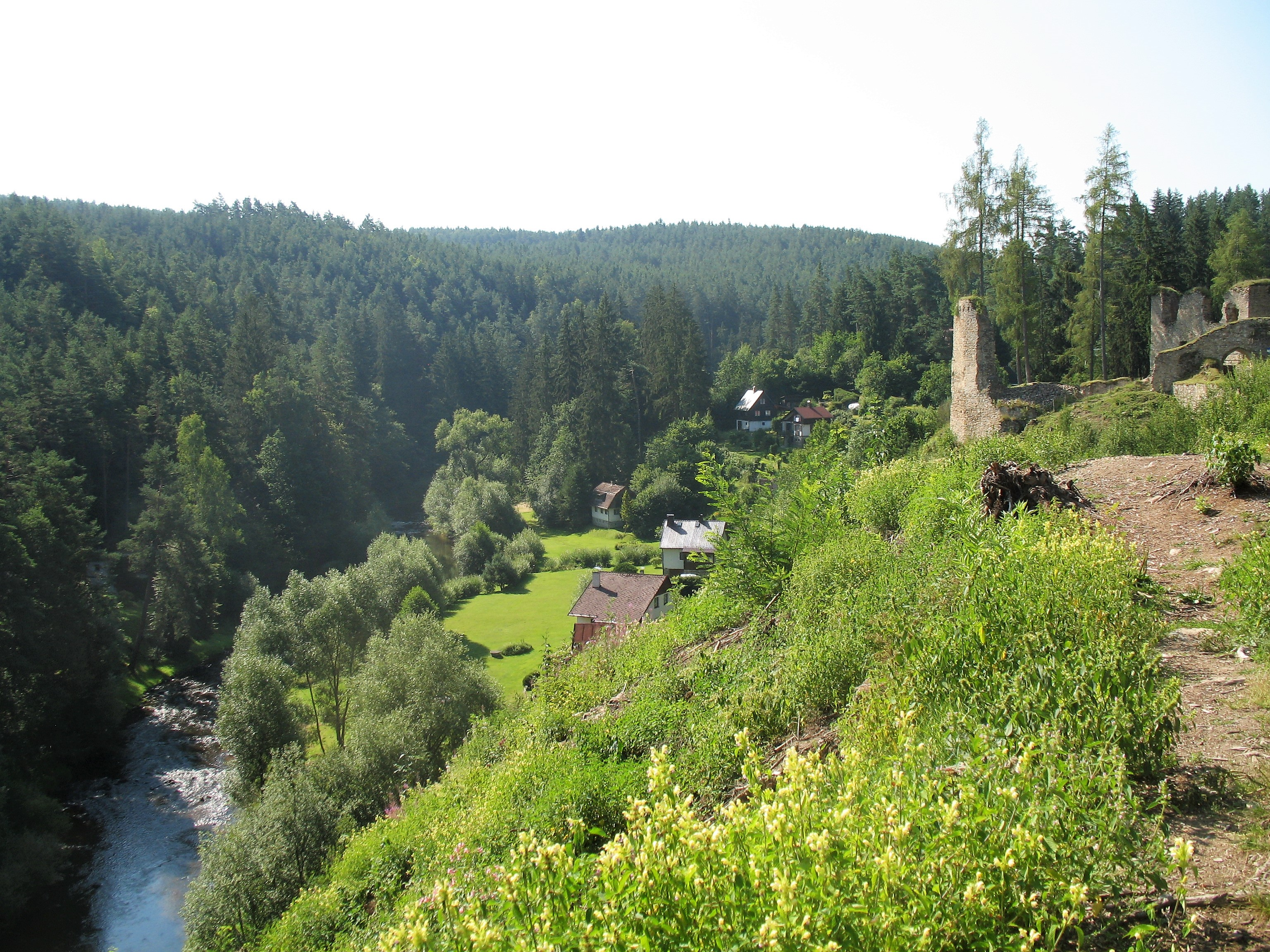 Pořešín Castle, Český Krumlov District, Czech Republic